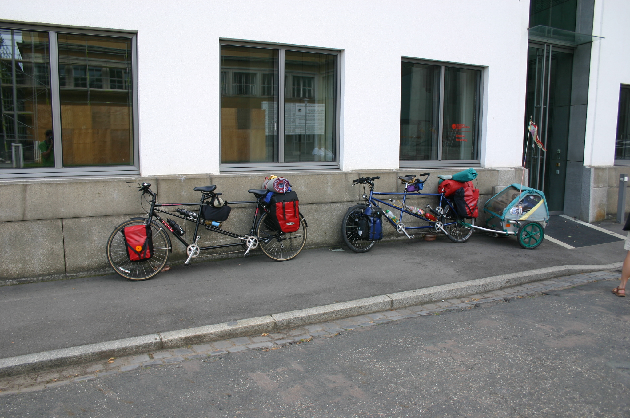 Description: Tandem bicycle source: created on 30.07.2005 by Stephan Herz with Canon EOS 300D